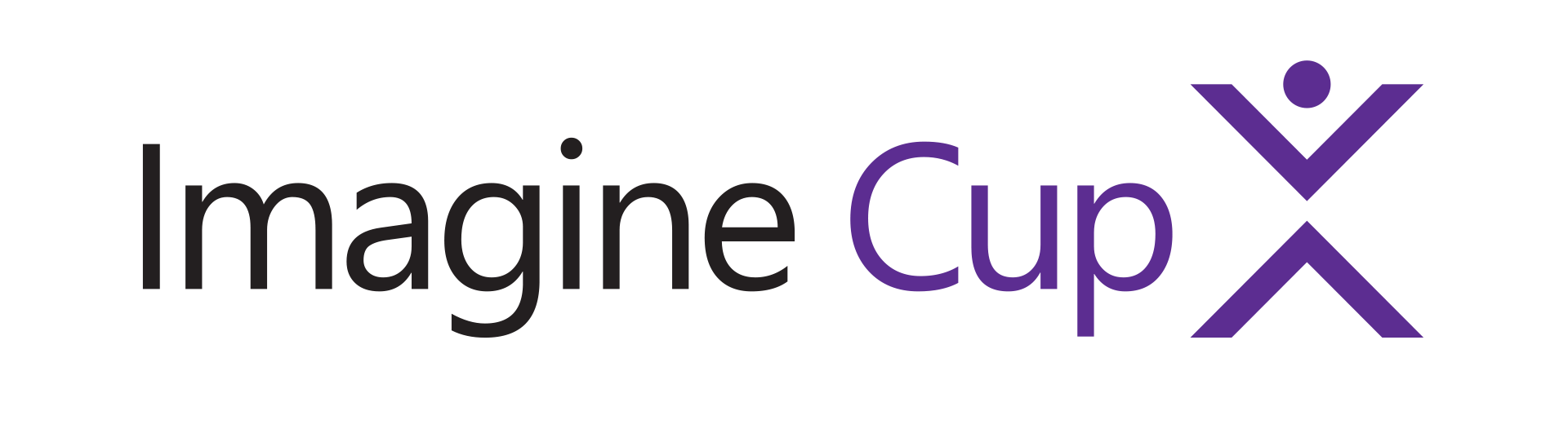 ImagineCup logo